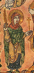 Detail of the Virgin Mary